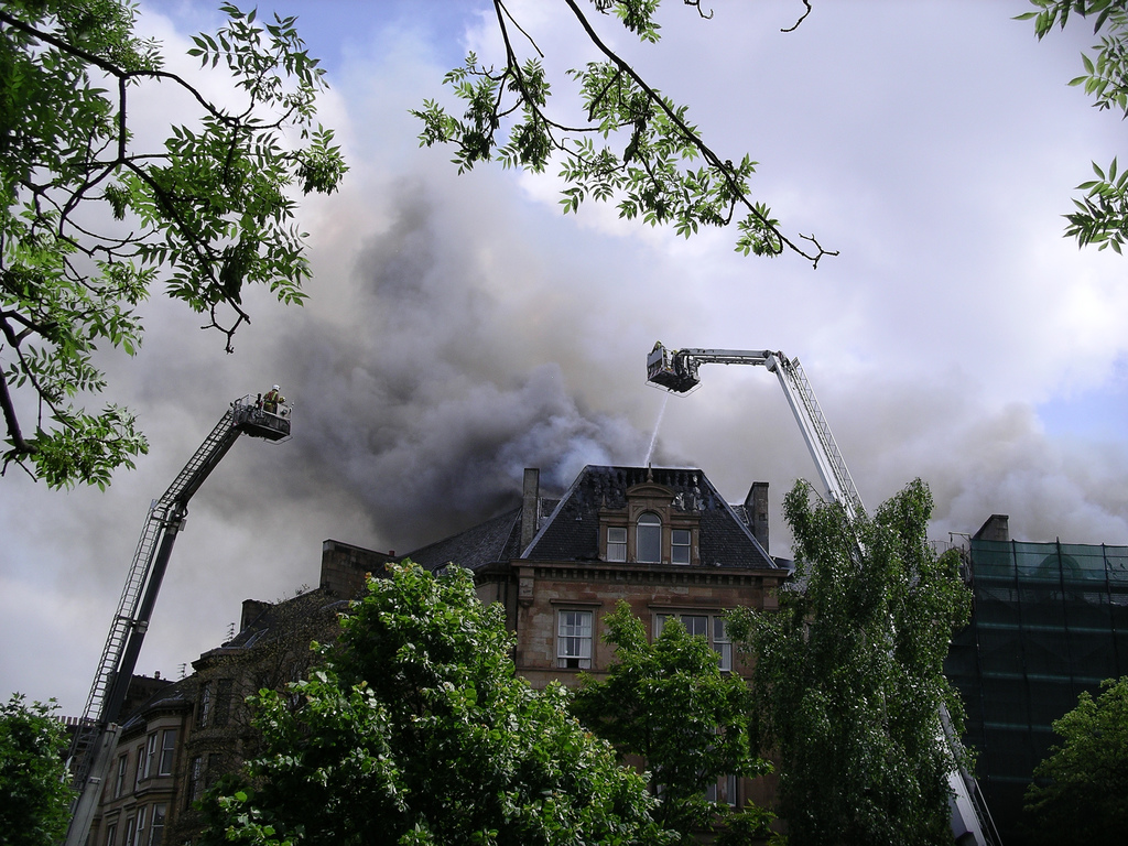 June 13th 2006. A fire at Maclay Halls, Park Terrace, Glasgow. J.McHale